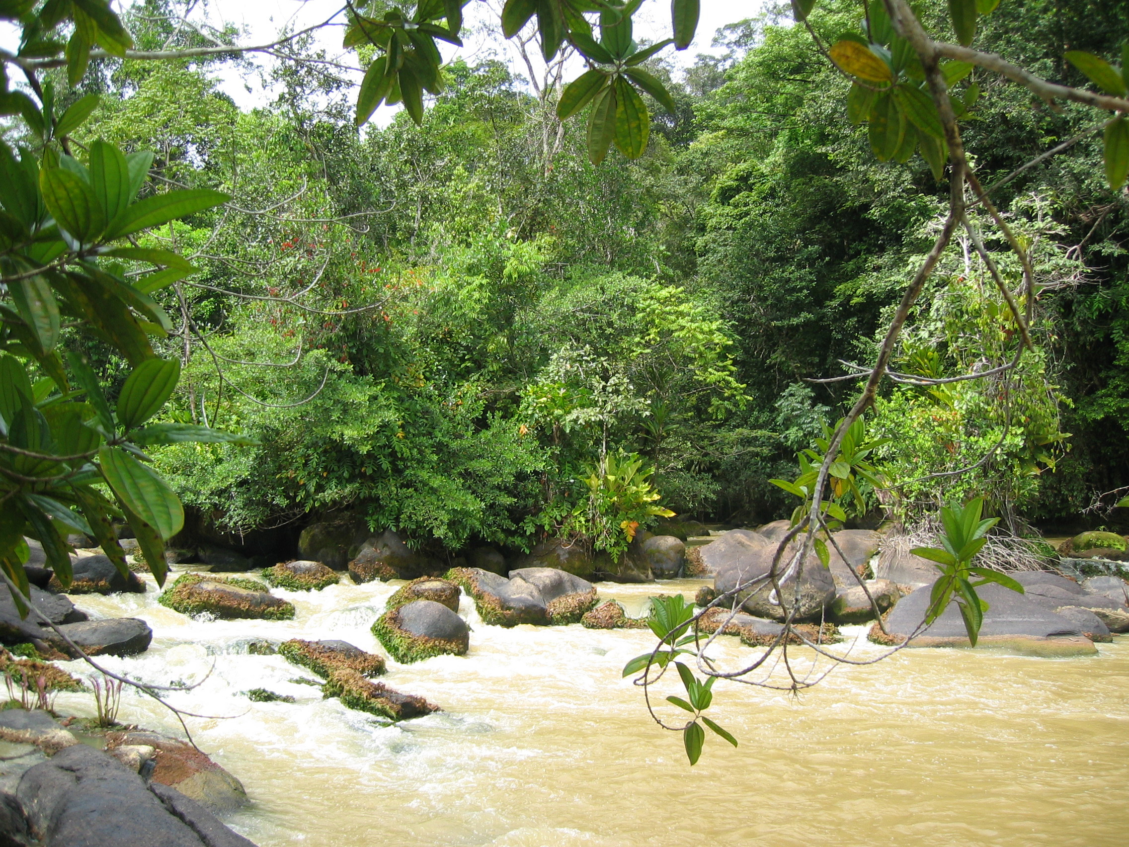 Approuague River in French Guiana